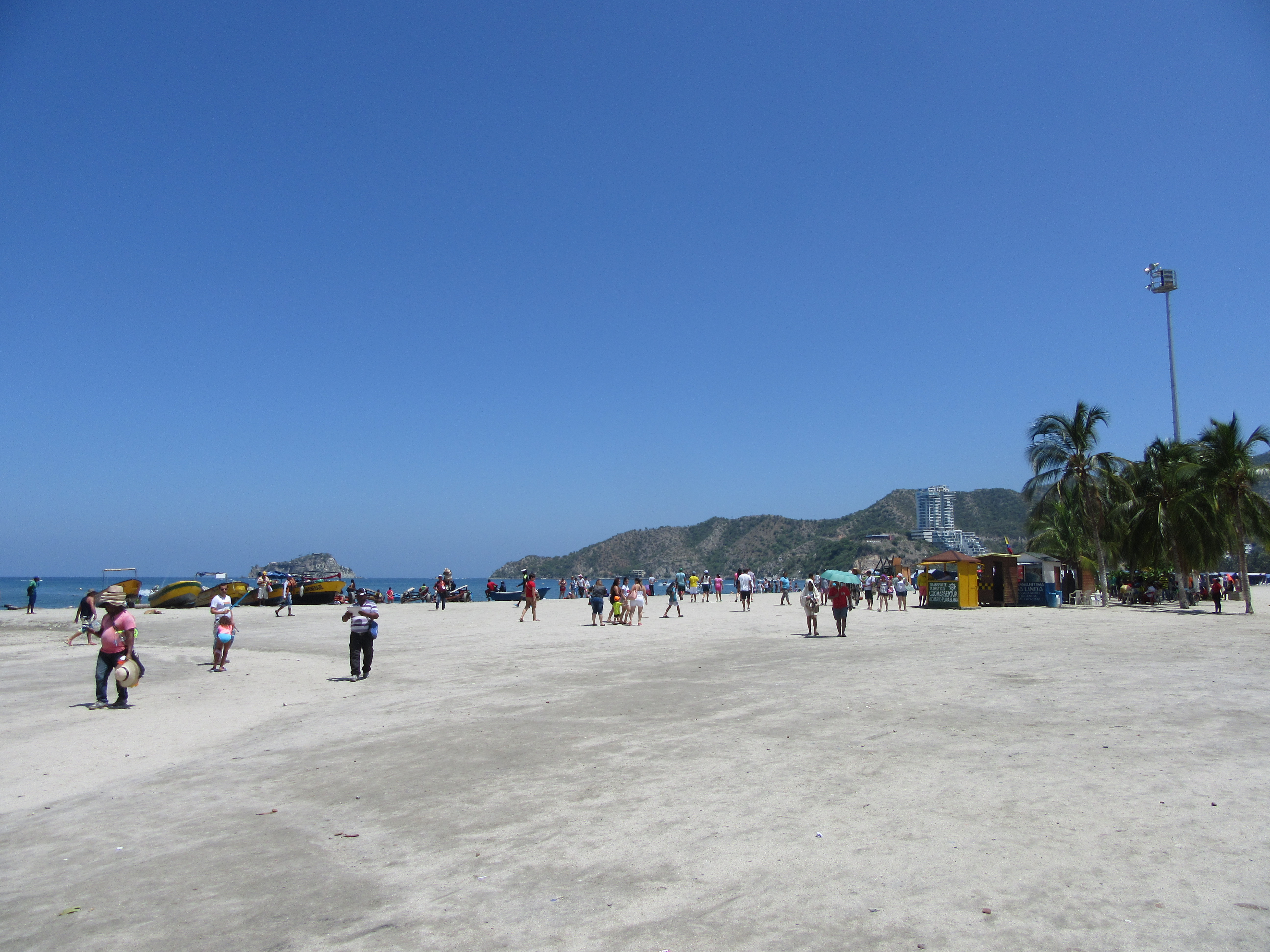 El Rodadero